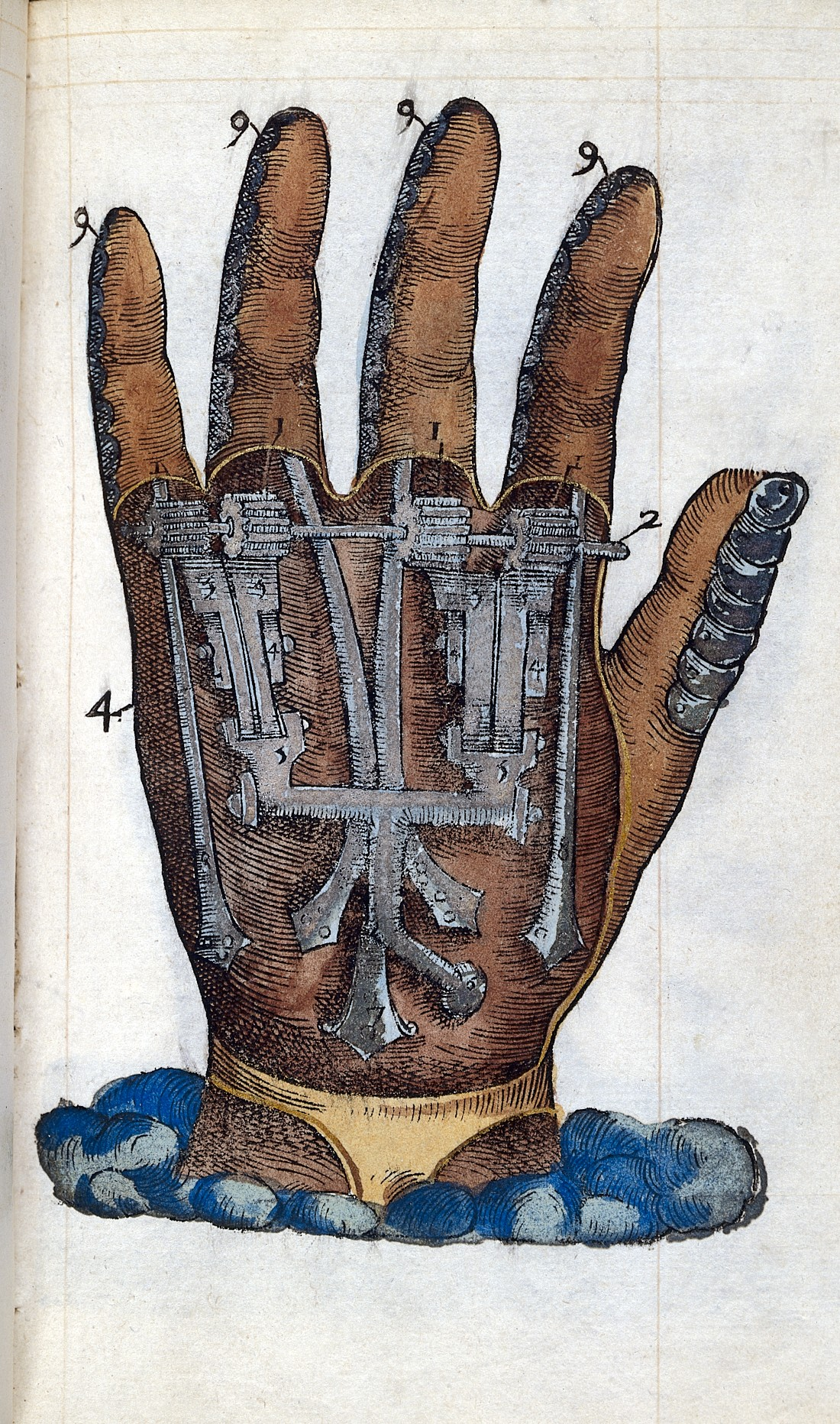 Illustration of mechanical hand Rare Books Keywords: PROSTHETICS; Anatomy; Surgical Instruments; Ambroise Paré